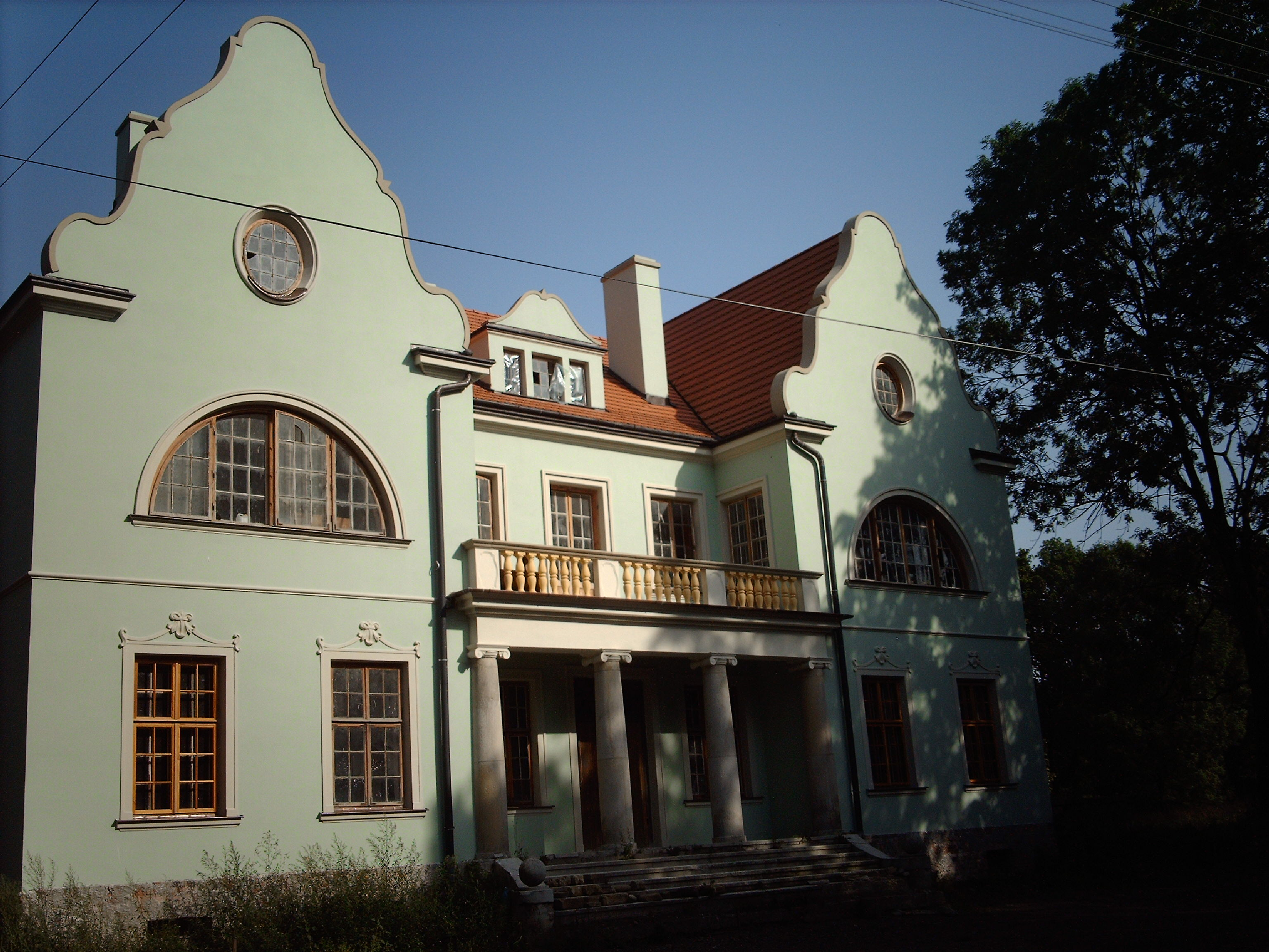 Manor house with gables in Zawada, Subcarpathian Voivodeship, southeastern Poland.